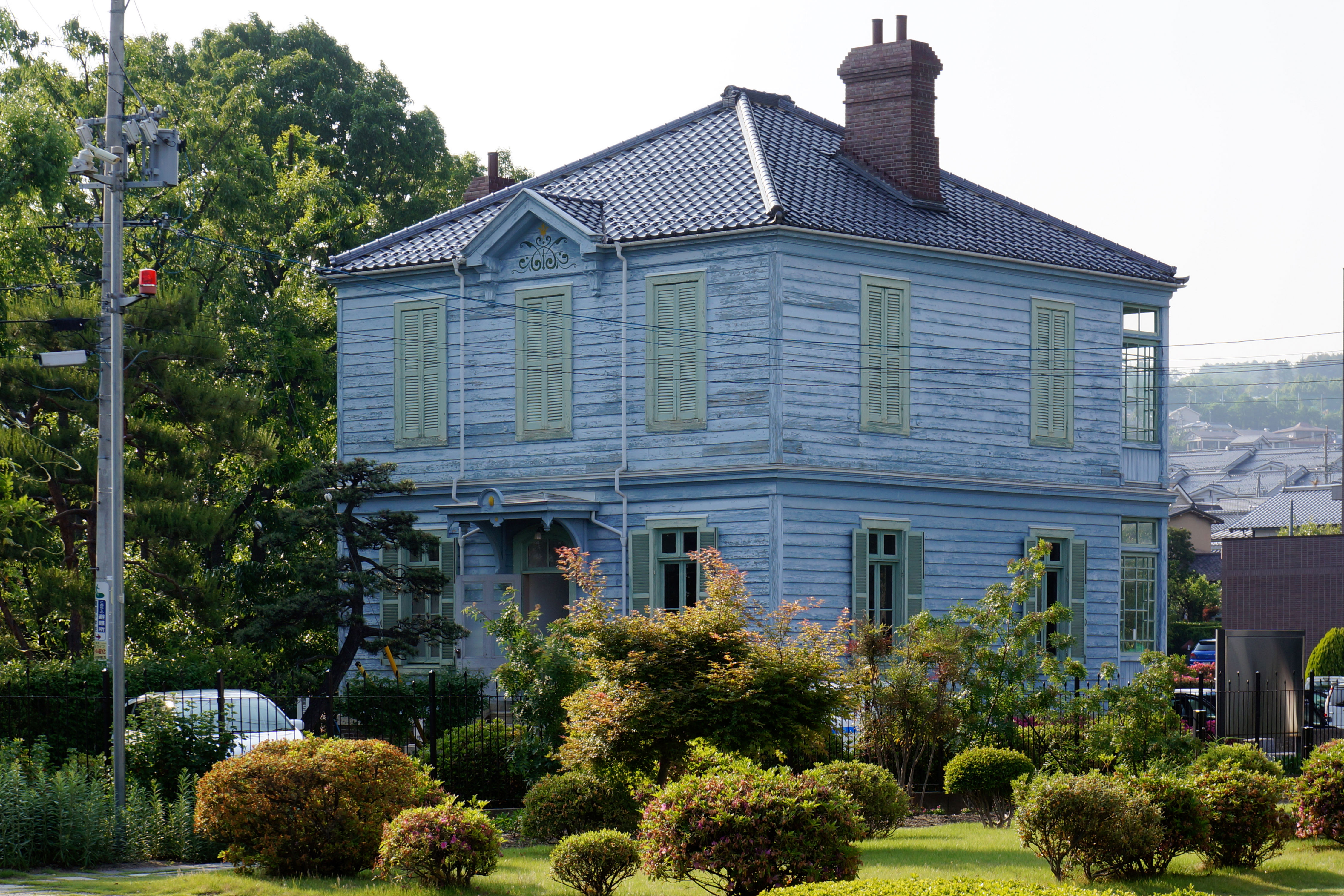 Former Matsumoto Catholic church priest house in Matsumoto, Nagano prefecture, Japan.